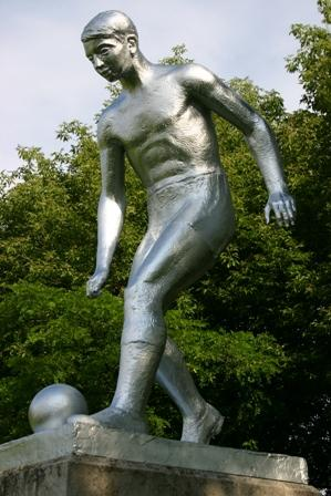 This monument build in 1964 than it was renovated three times. Here is after the last renovation in the Millennium